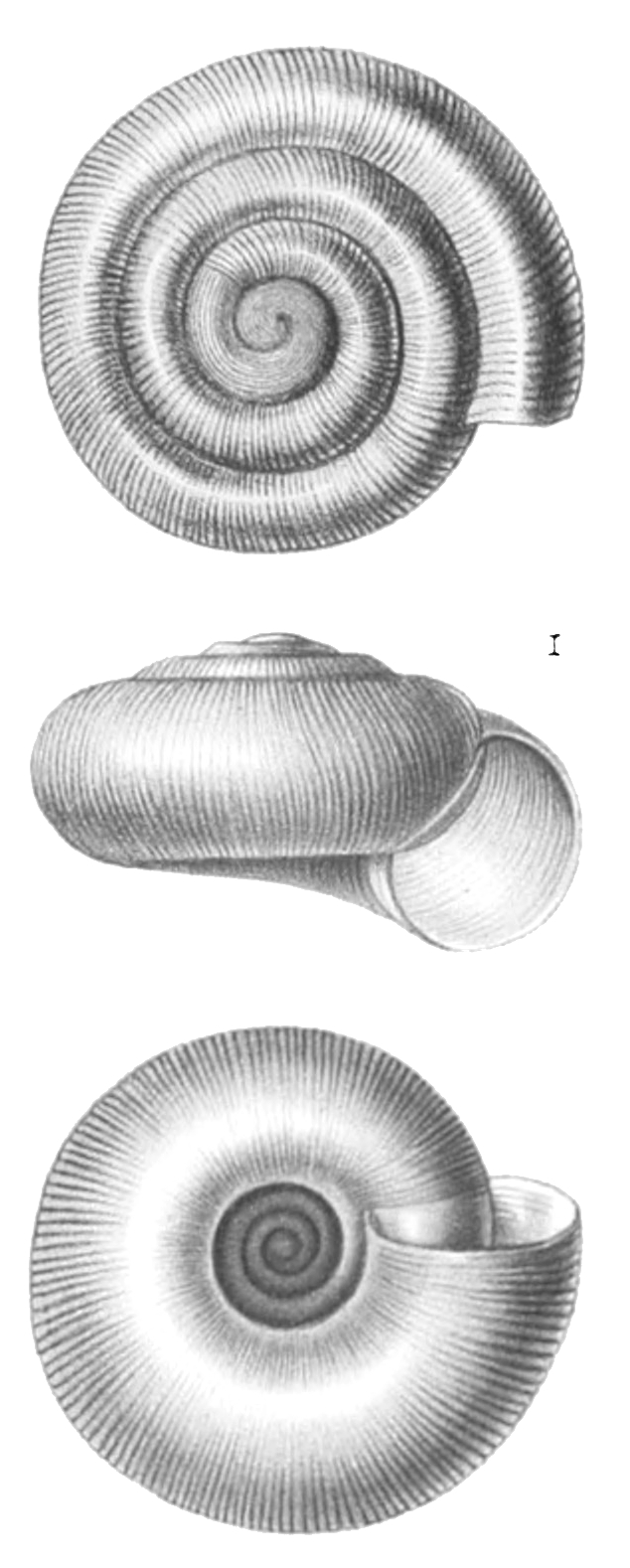 drawing of the shell of Radiodiscus patagonicus